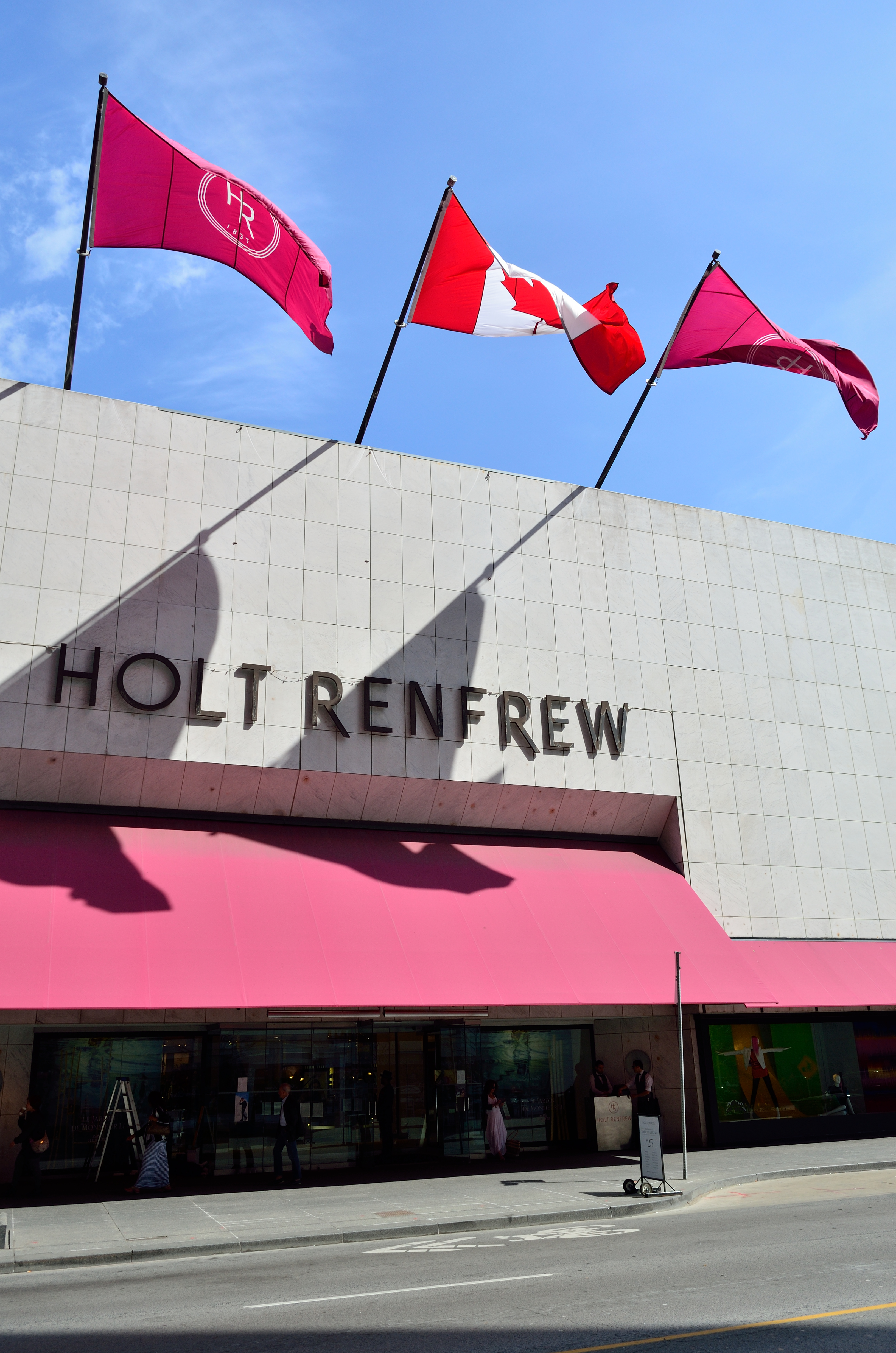 Holt Renfrew flagship store on Bloor Street, Toronto